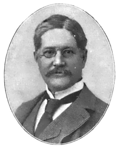 Portrait of Charles Herbert Allen from 1898.